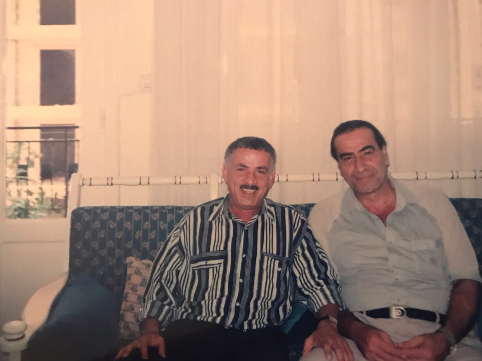 عصام العبدالله مع الفنان أحمد زين خلال فترة برنامة ابن البلد في اذاعة صوت الشعب